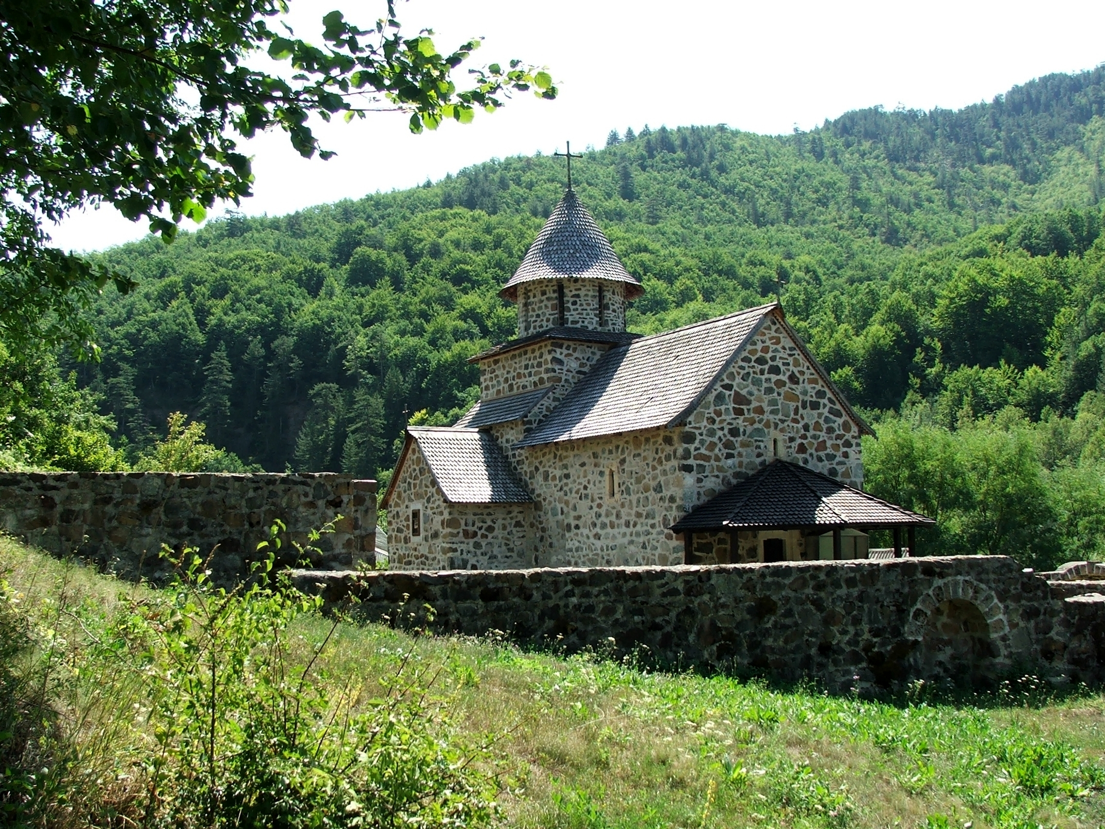 Uvac MonasteryСрпски (ћирилица): Манастир Увац